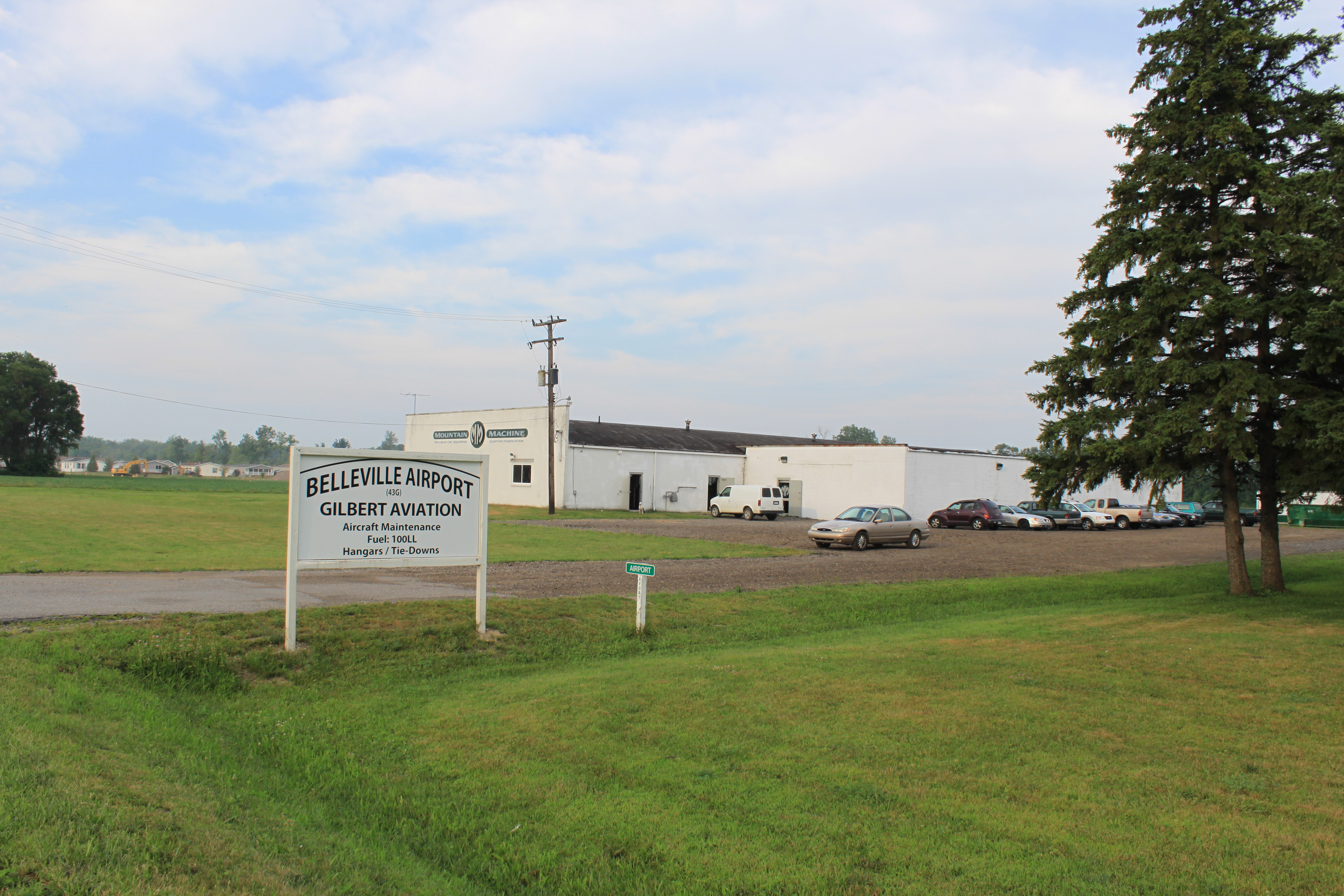 Bellville Michigan Airport entrance, Rawsonville Road